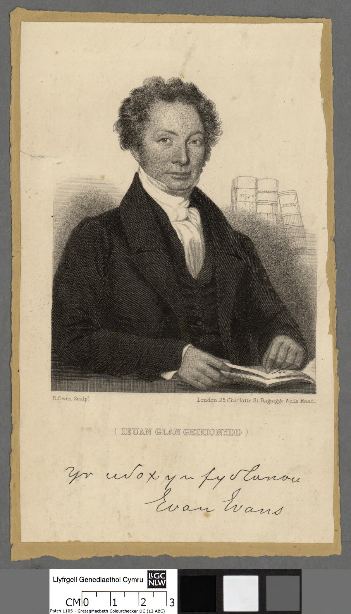 A portrait from the Welsh Portrait Collection at the National Library of Wales. Depicted person: Evan Evans – Welsh poet, hymn writer and Anglican priest